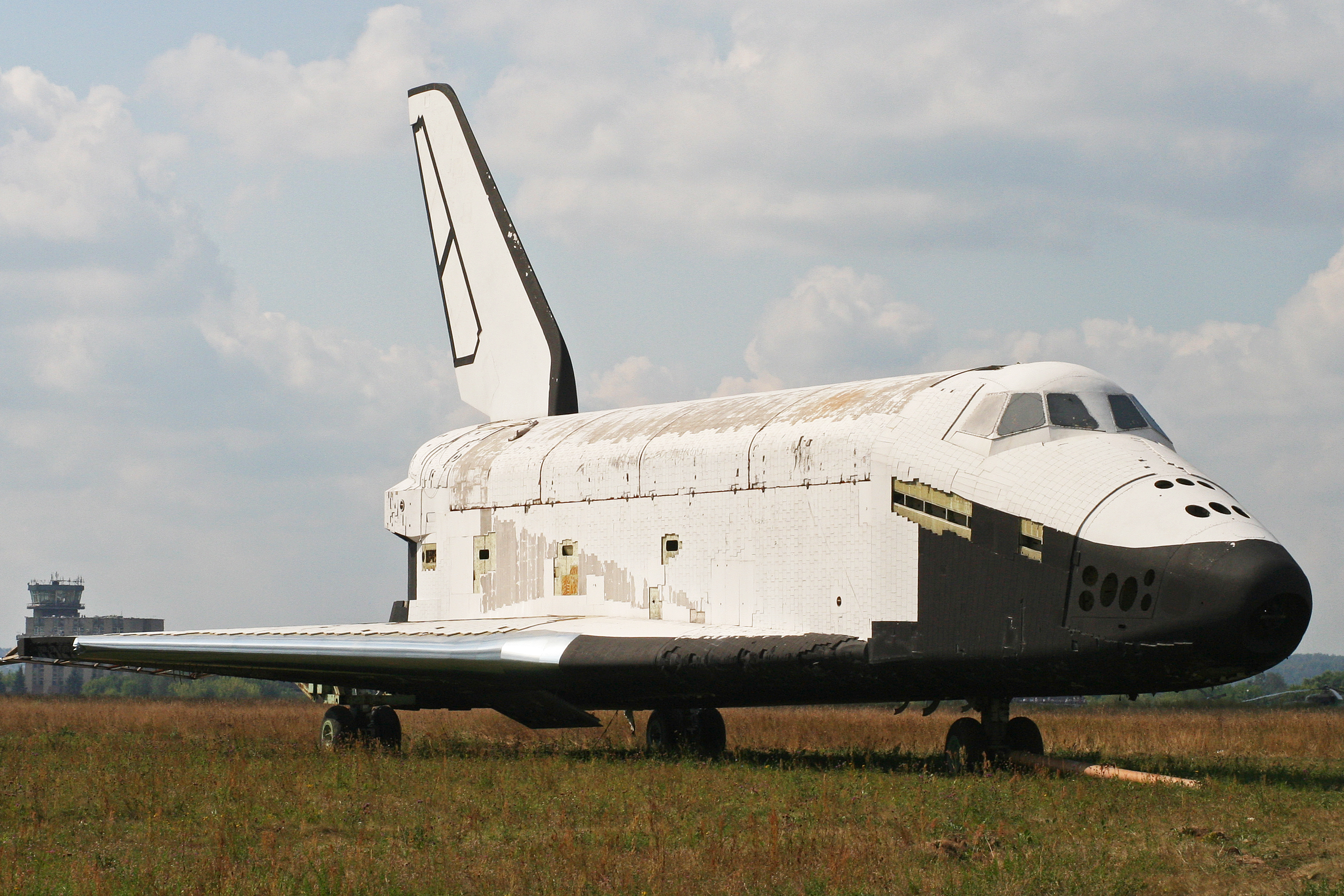 This was the third 'Buran' space shuttle built but was the first of the second generation shuttle, with several modifications over the initial two aircraft. While 'Buran' was the name of the programme and also the first shuttle built, the fleet were all to have different names and this would have been the 'Baikal'. c/n 11F35 K3. It was only 50% completed when the programme ended and remained stored at the Tushino factory for many years. It moved to Zhukovsky on a barge in 2011. It is assumed that it will become part of some kind of museum. Stored on a grass area next to part of the crowdline and seen during the Russian Air Force 100th Anniversary Airshow. Zhukovsky, Russia. 12-8-2012